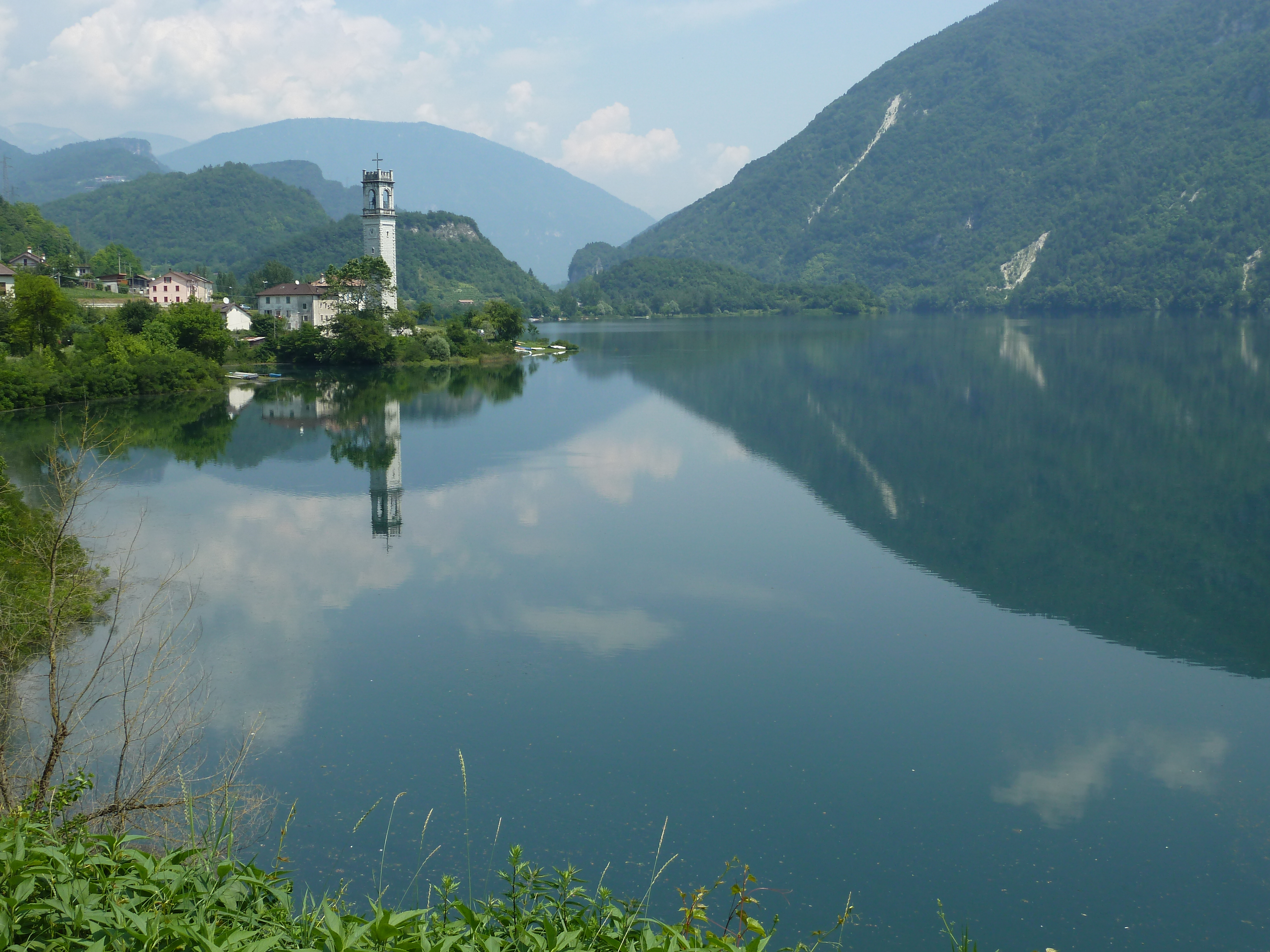 Lago del Corlo, artificial lake in Arsiè, Belluno, Italy. Small village Rocca on western lake shore.